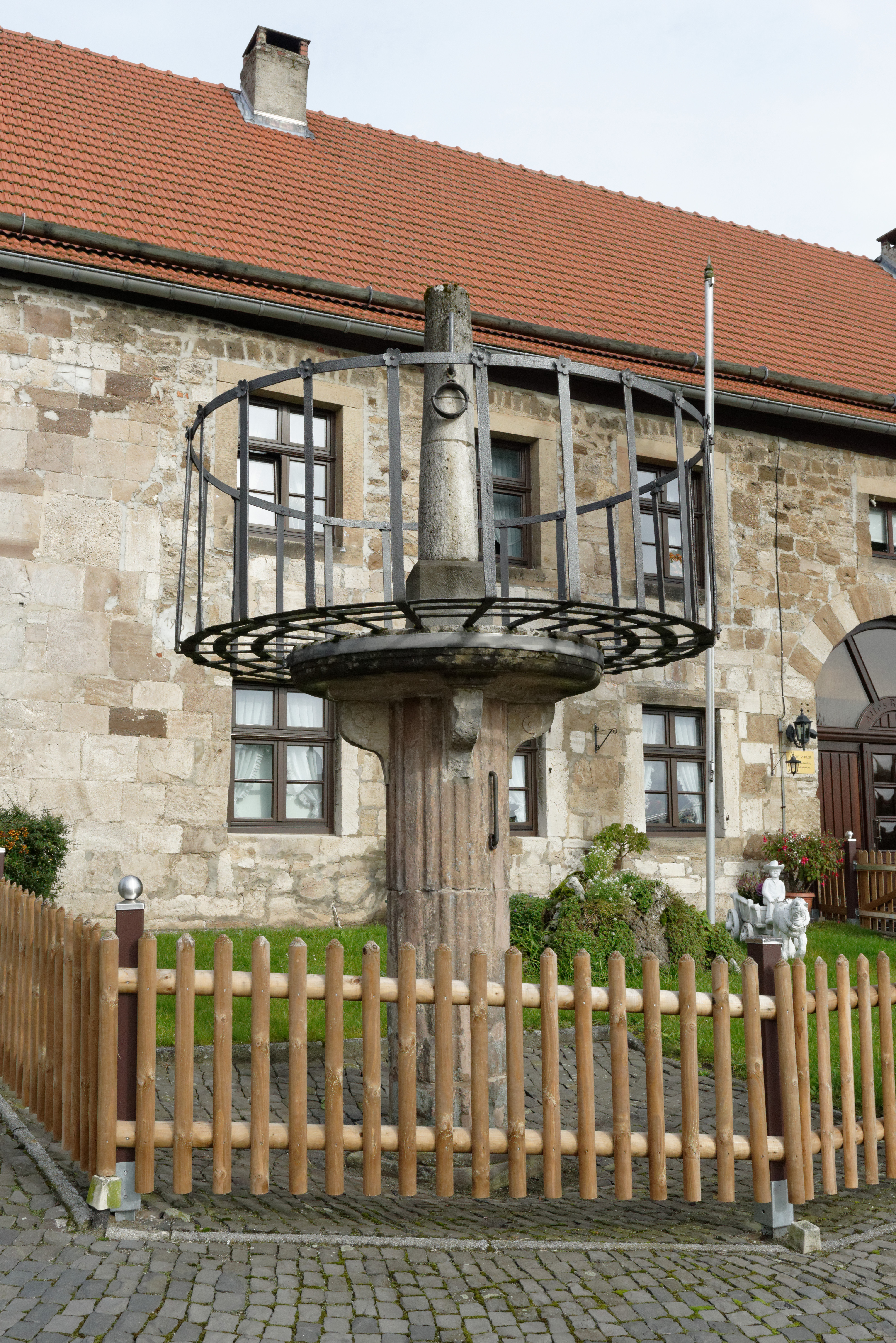 The making of this document was supported by the Community-Budget of Wikimedia Germany.